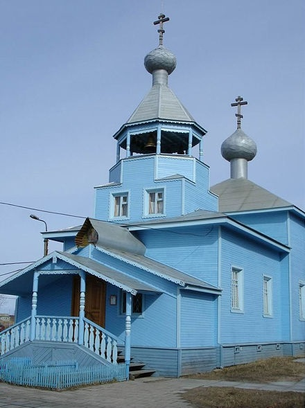 Orthodox christian chapel on Jagry island